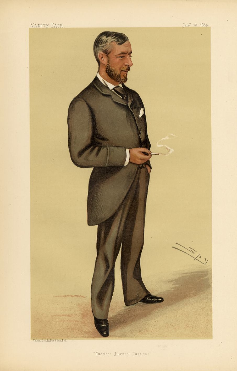 Caricature (M 0295) of British diplomat Sir Edward Malet (1837–1908), published in the British magazine Vanity Fair on 12 January 1884. The caricature featured a caption stating "Justice! Justice! Justice!", and shows a bearded Sir Edward Malet wearing a wing collar and smoking a cigarette.